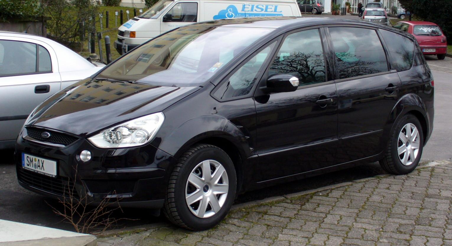 Ford S-MAX (look licence plate)